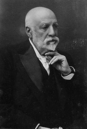 Alexander Constantine (Constantine) Ionides.( 20 Aug 1810, Constantinople, Turkey/Byzantium - 10 Nov 1890, Hastings, Sussex, England) Greek Merchant and banker.